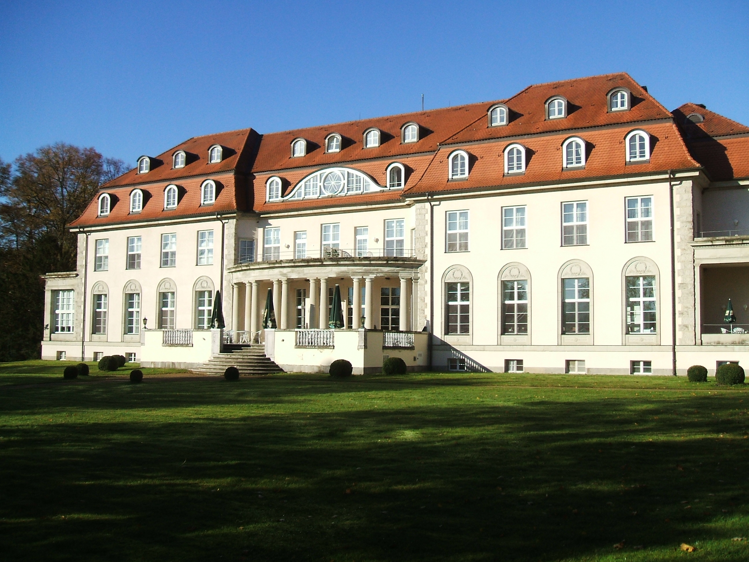 Storkau manor house, near Tangermünde, Saxony-Anhalt, Germany; built in 1912, since 1995 used as a hotel